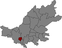 Location of el Milà in Alt Camp